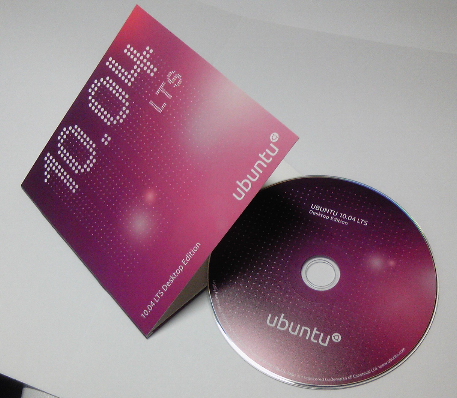 Ubuntu 10.04 shipit CDs